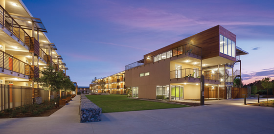 West Hall and East Hall on the Pitzer College campus at dusk.